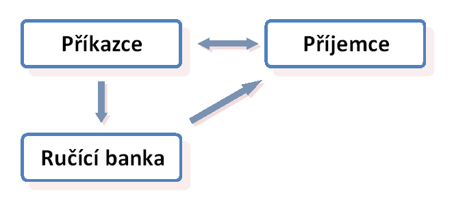 Bank surety - basic relationships